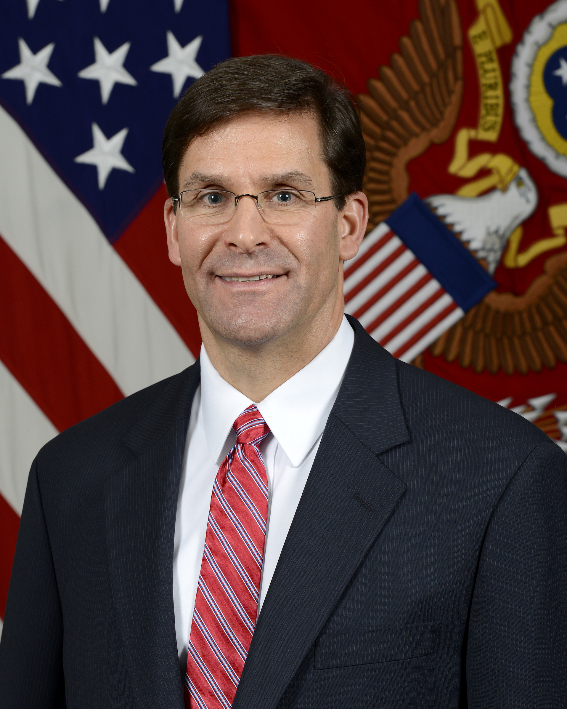 Dr. Mark T. Esper, 23rd secretary of the U.S. Army